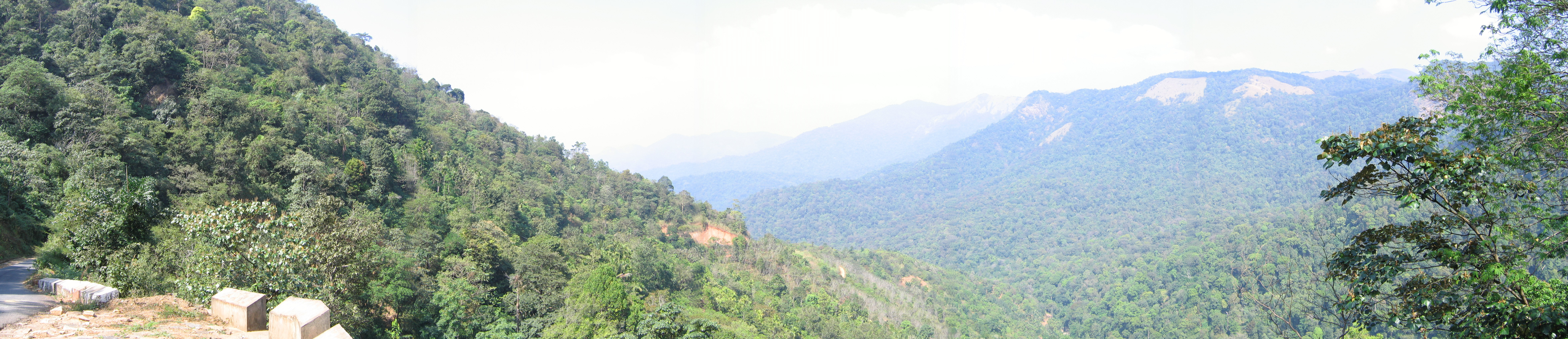 A panoramic view of the road going from Kottiyoor to Mananthavady